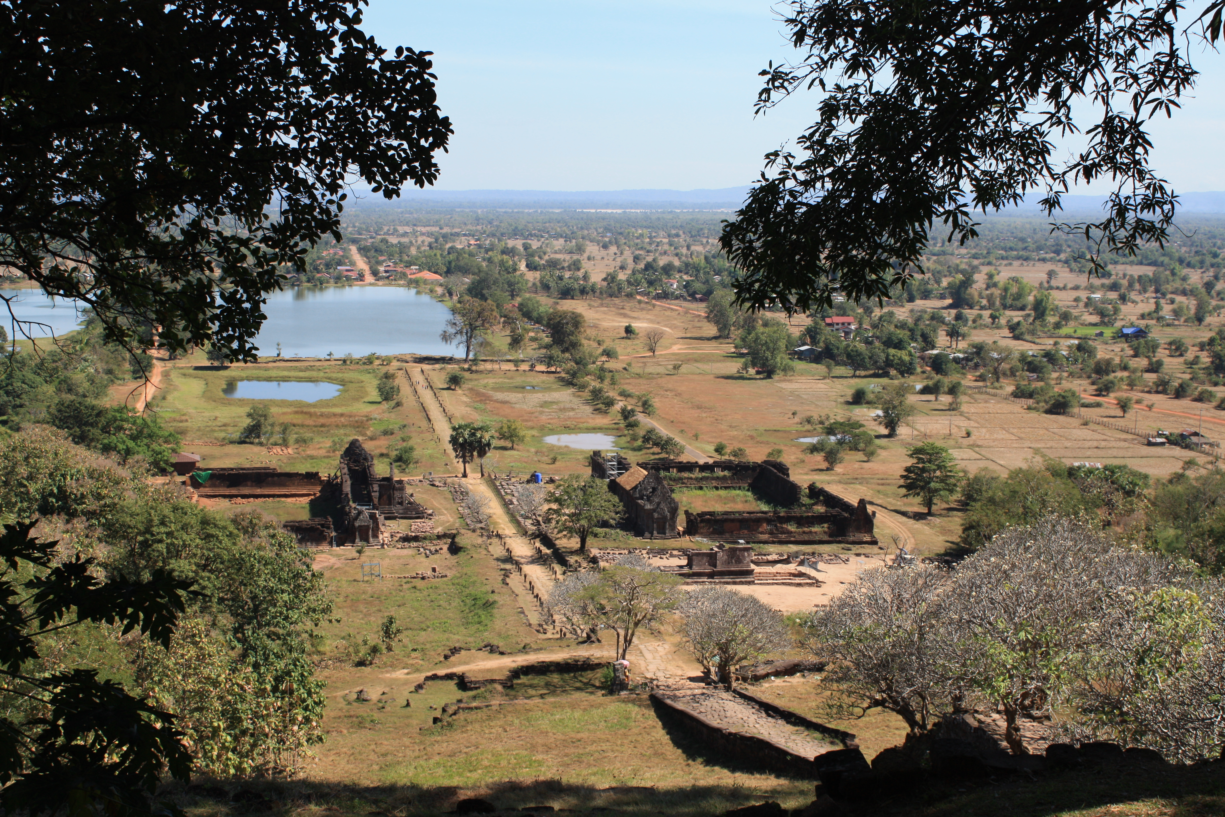 View from near the top of Wat Phu. Looking back towards the Mekong.